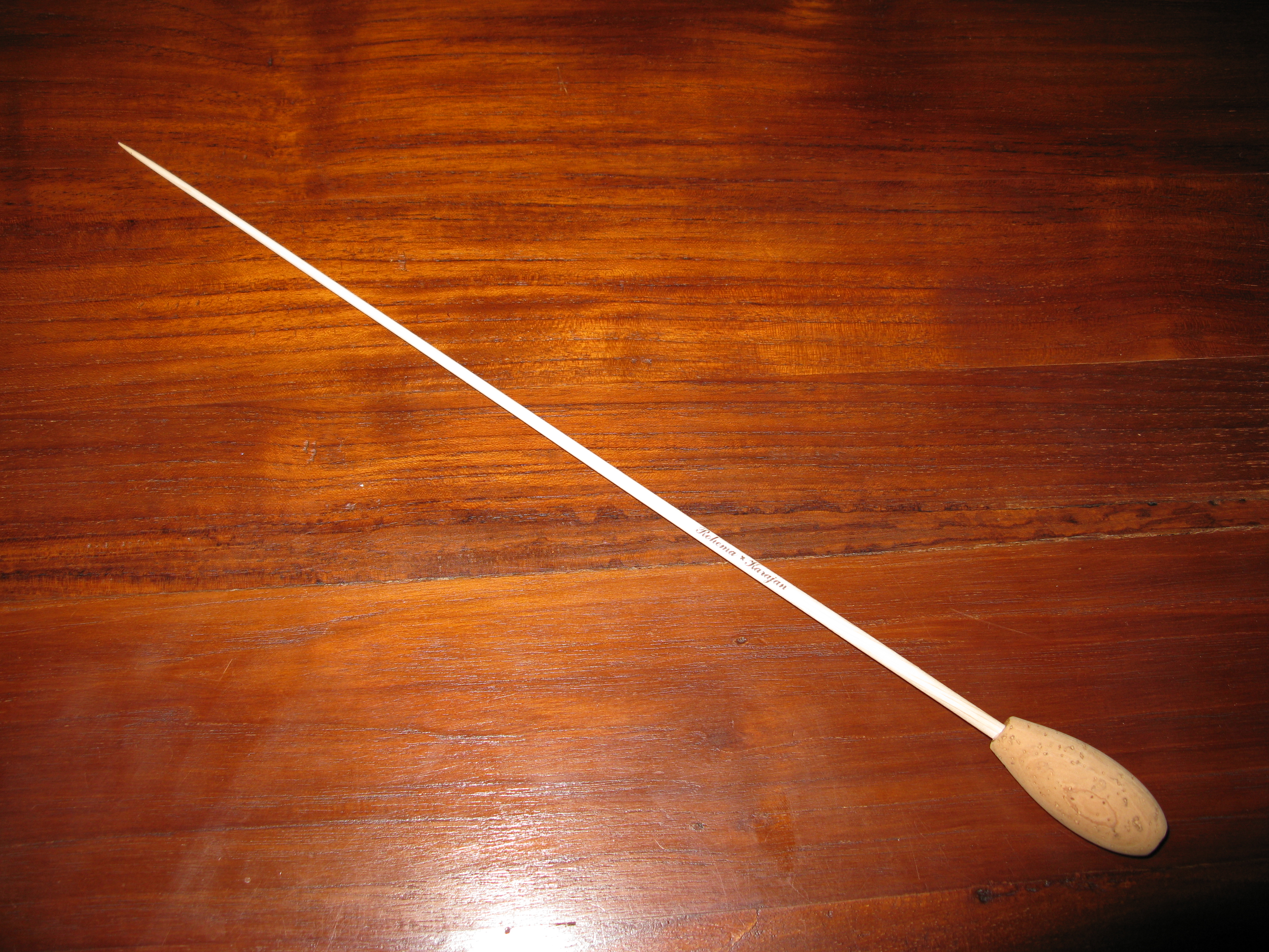 Conducting baton